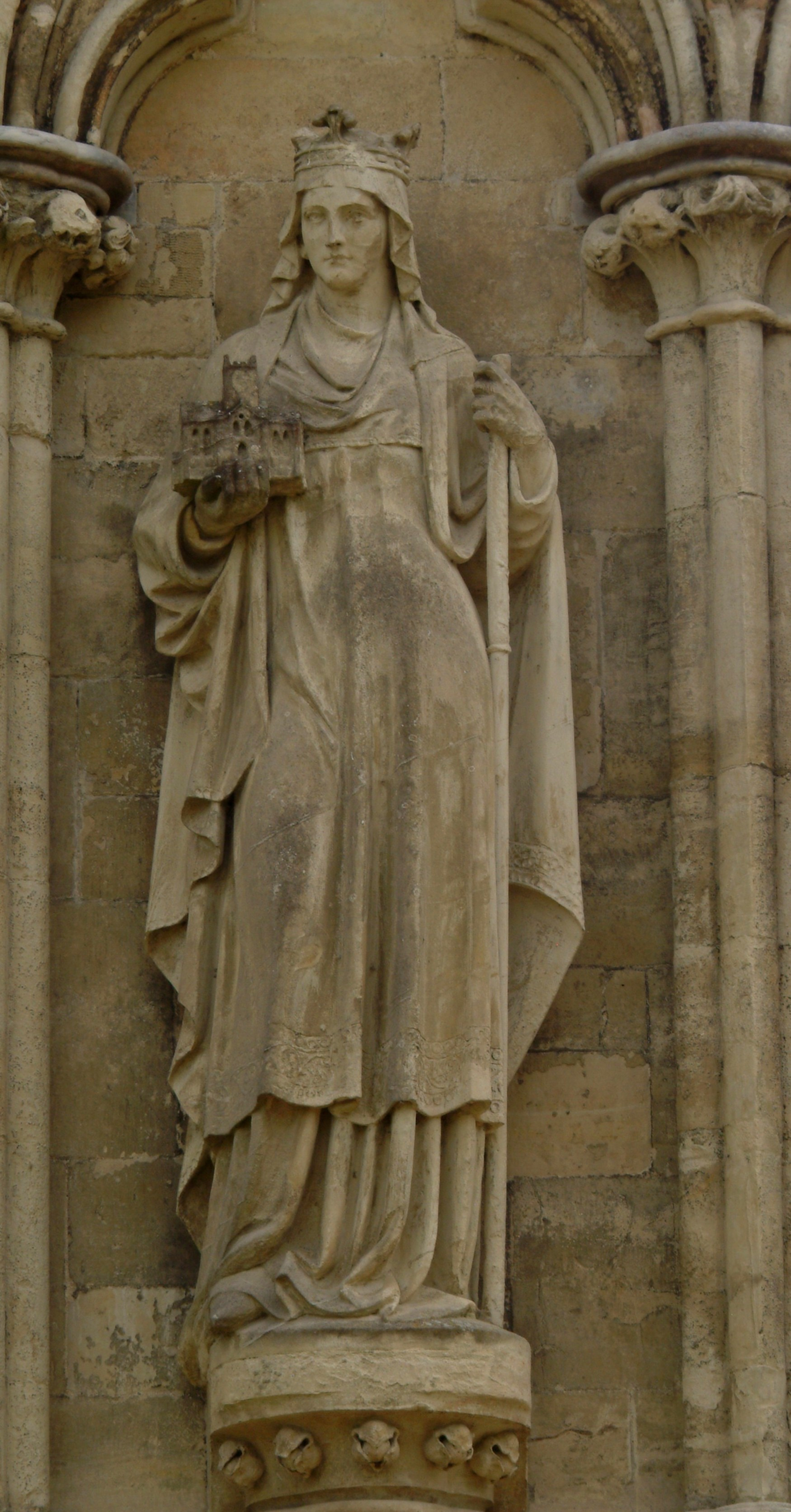 Statue of St Etheldreda on the West Front of Salisbury Cathedral, UK.